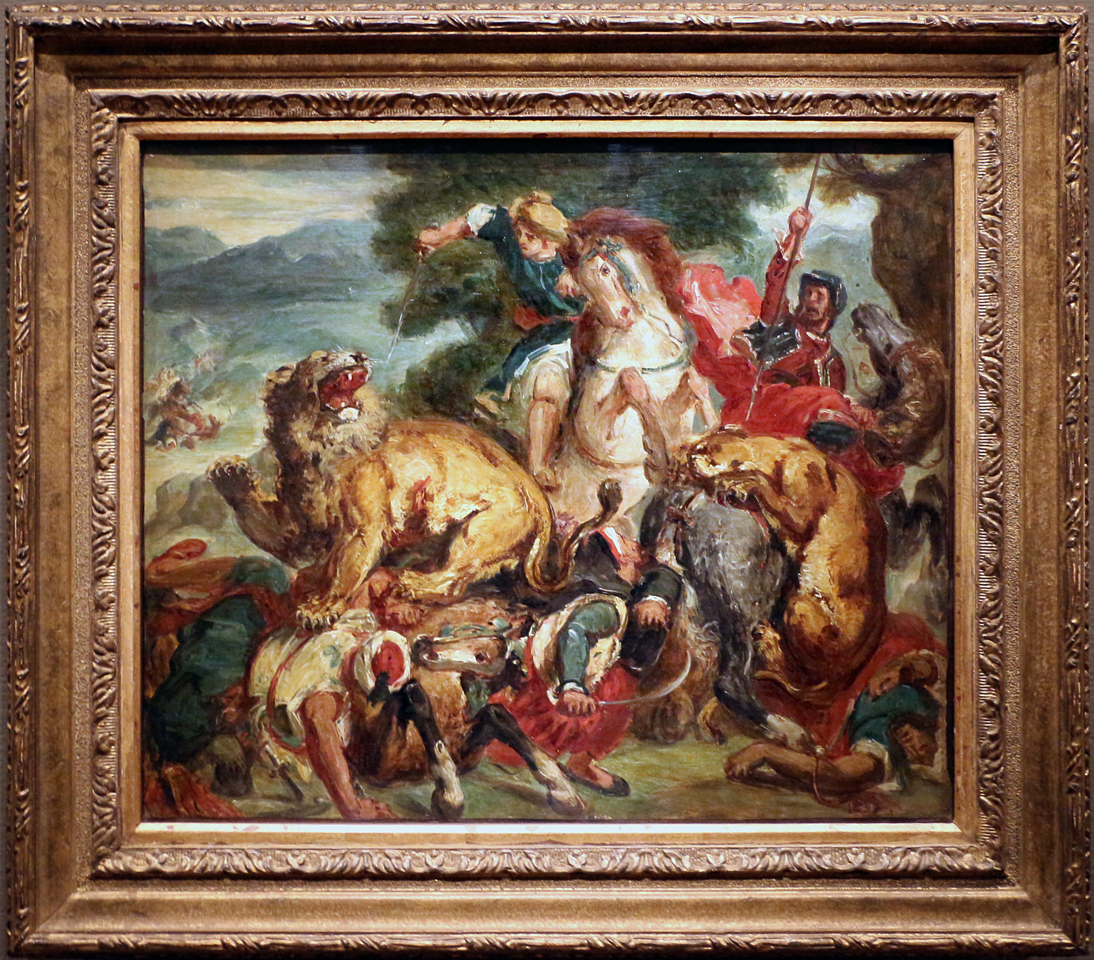 French paintings in the Art Institute of Chicago